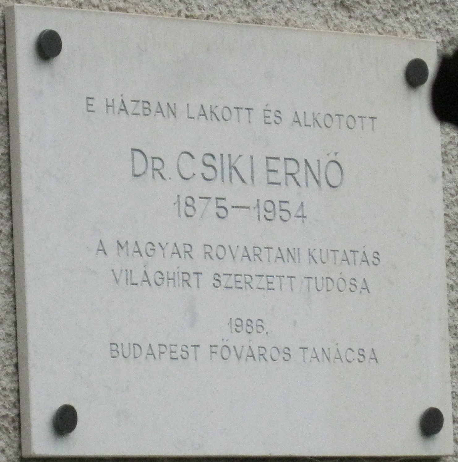 Ernő Csiki commemorative plaque in Budapest District II, Bogár Street No 3